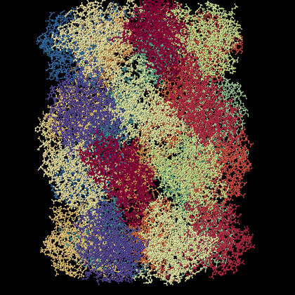 A proteasome